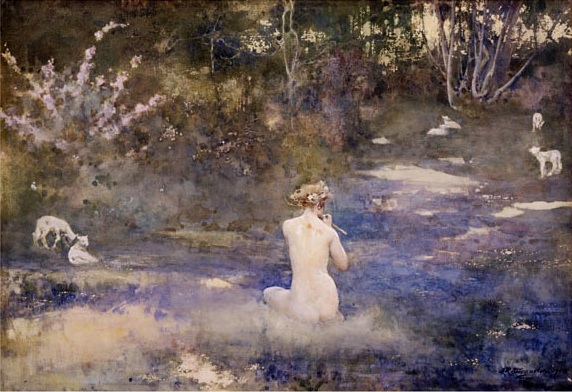 A shepherdess plays the flute as sheep graze in a sun-dappled meadow on the edge of the woods. Watercolour, 15 x 21".